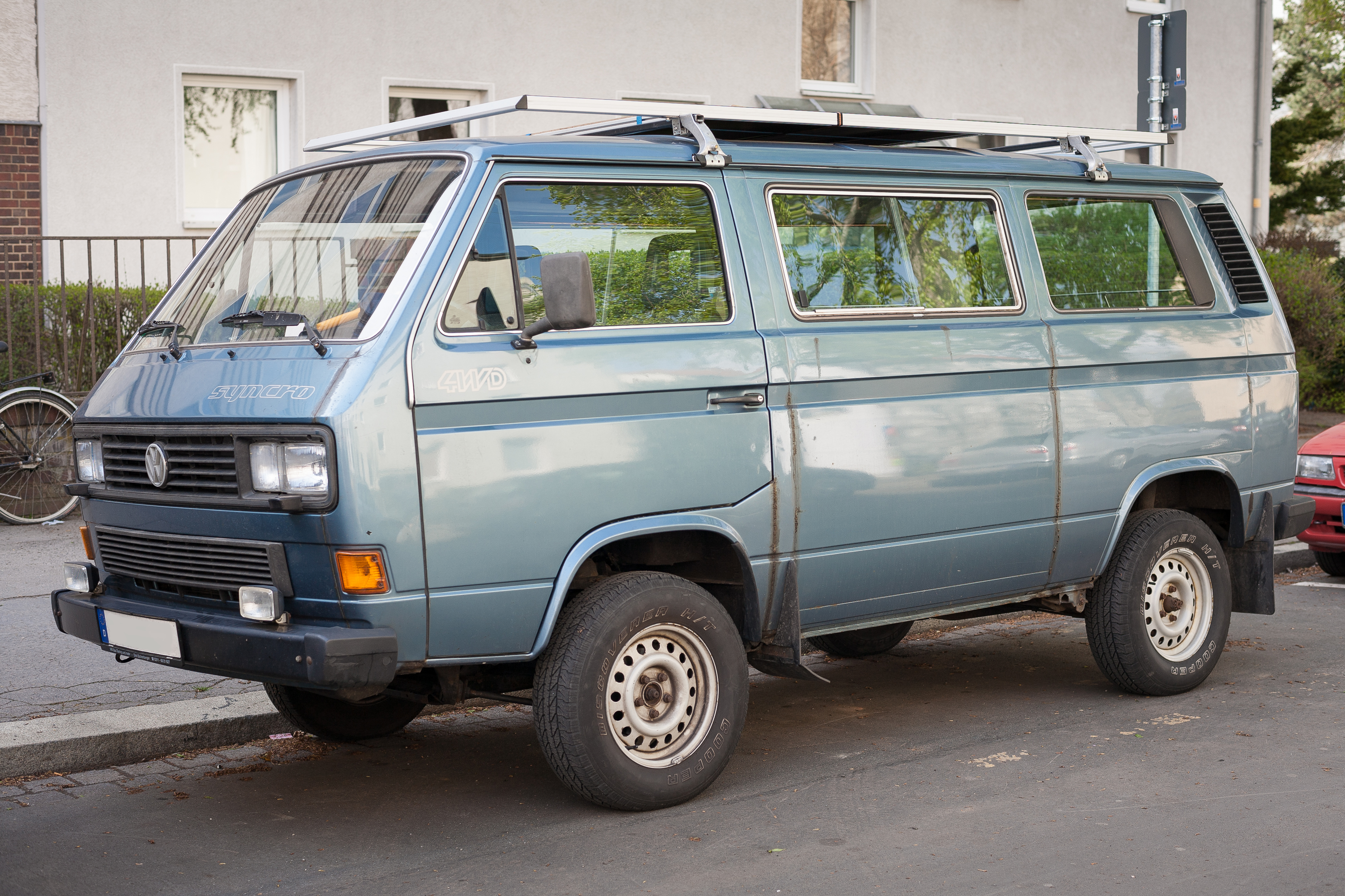 Volkswagen T3 Caravelle with four wheel drive.